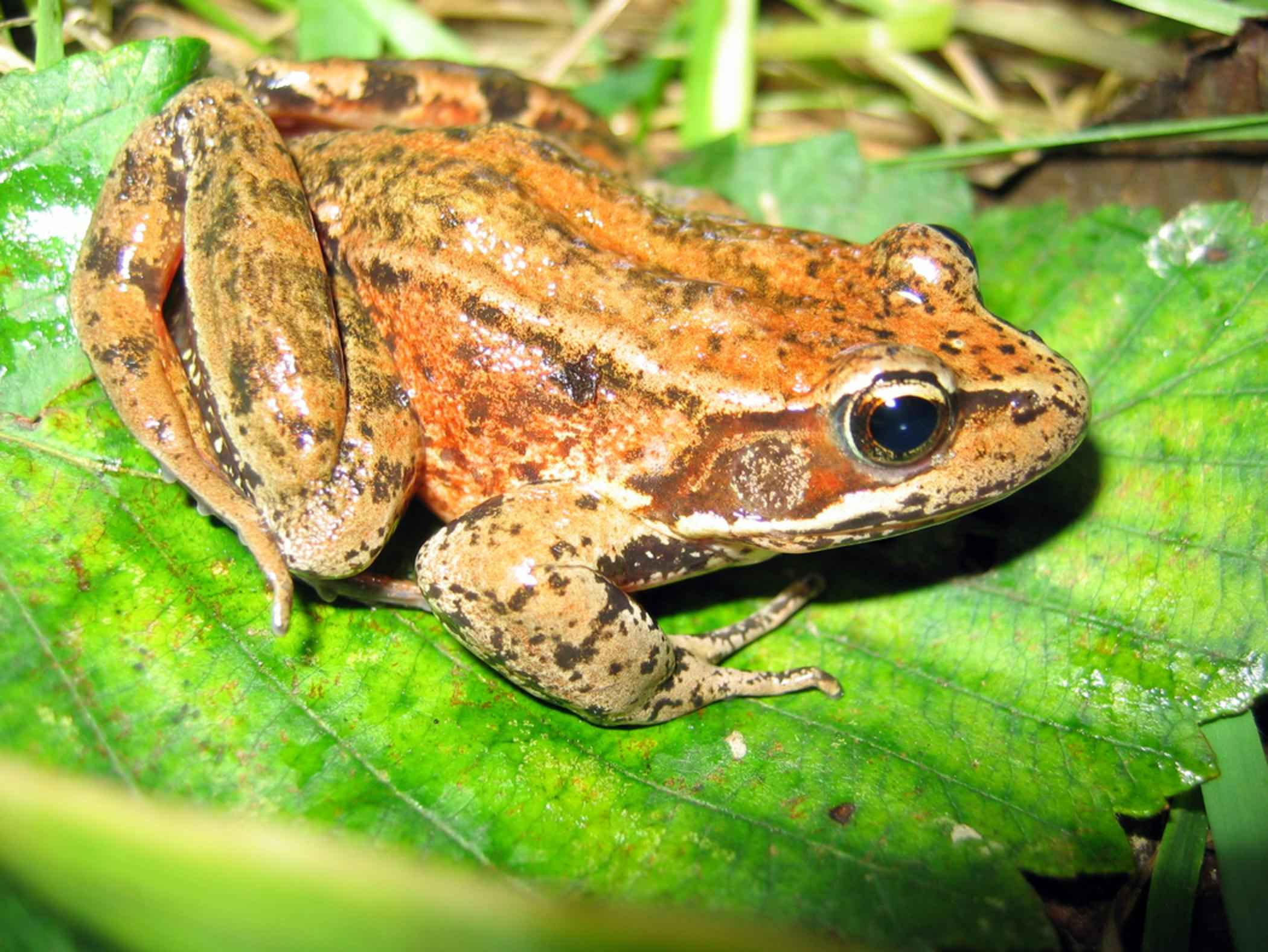 Image title: Northern red legged frog rana aurora amphibia Image from Public domain images website